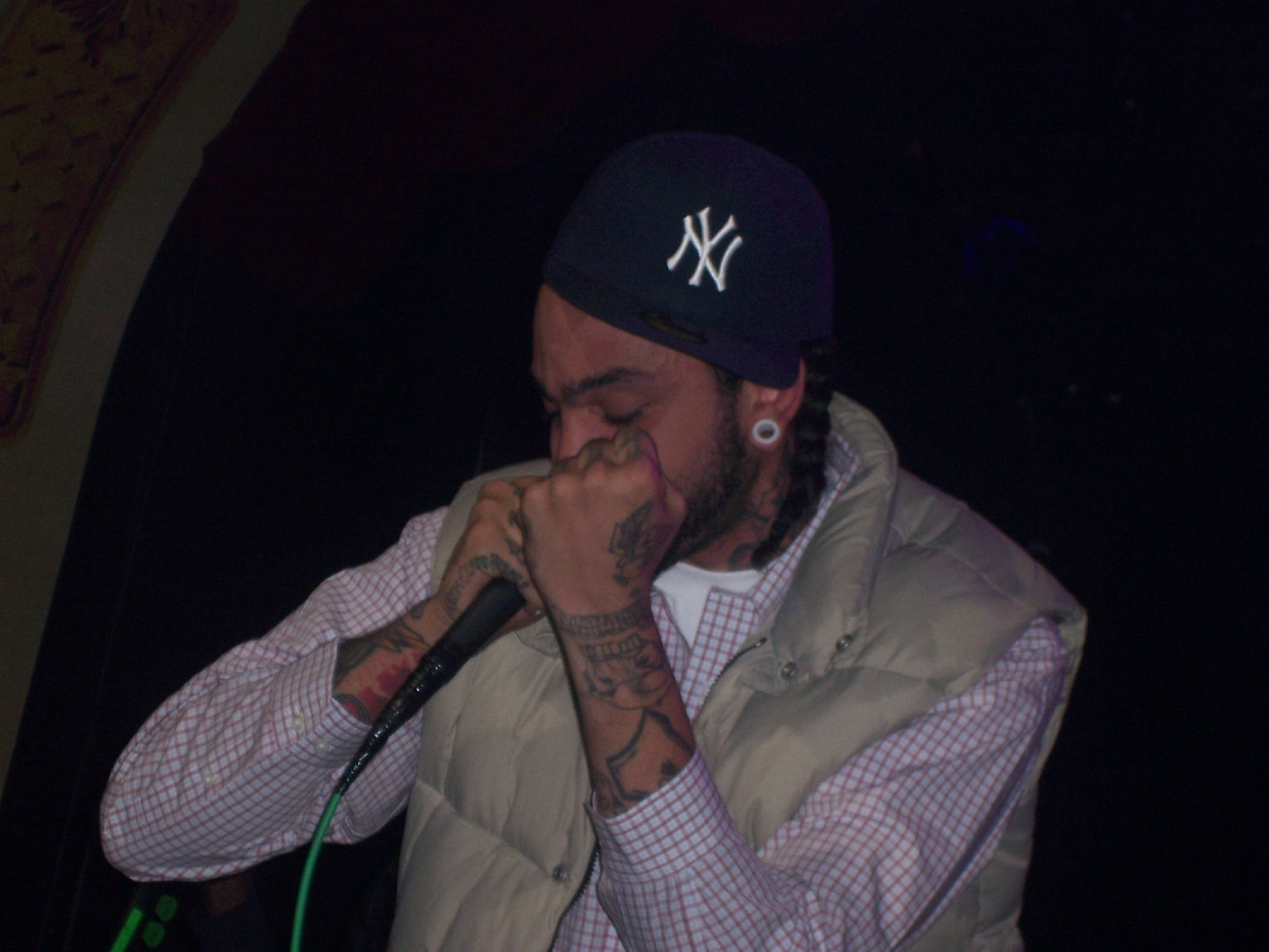 Travis McCoy of Gym Class Heroes on stage